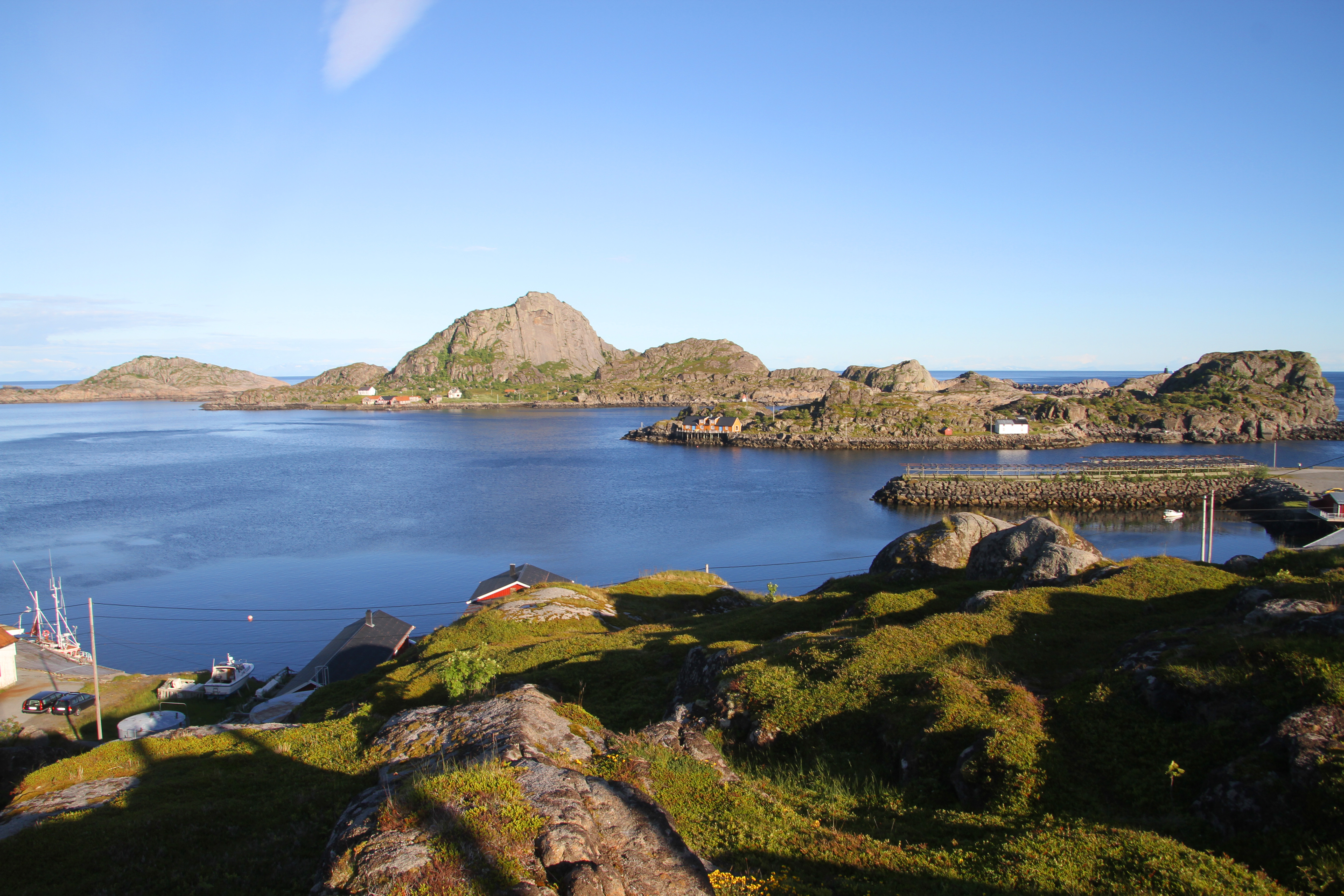 Settlement Mortsund, Vestvågøy, Lofoten, Norwegen